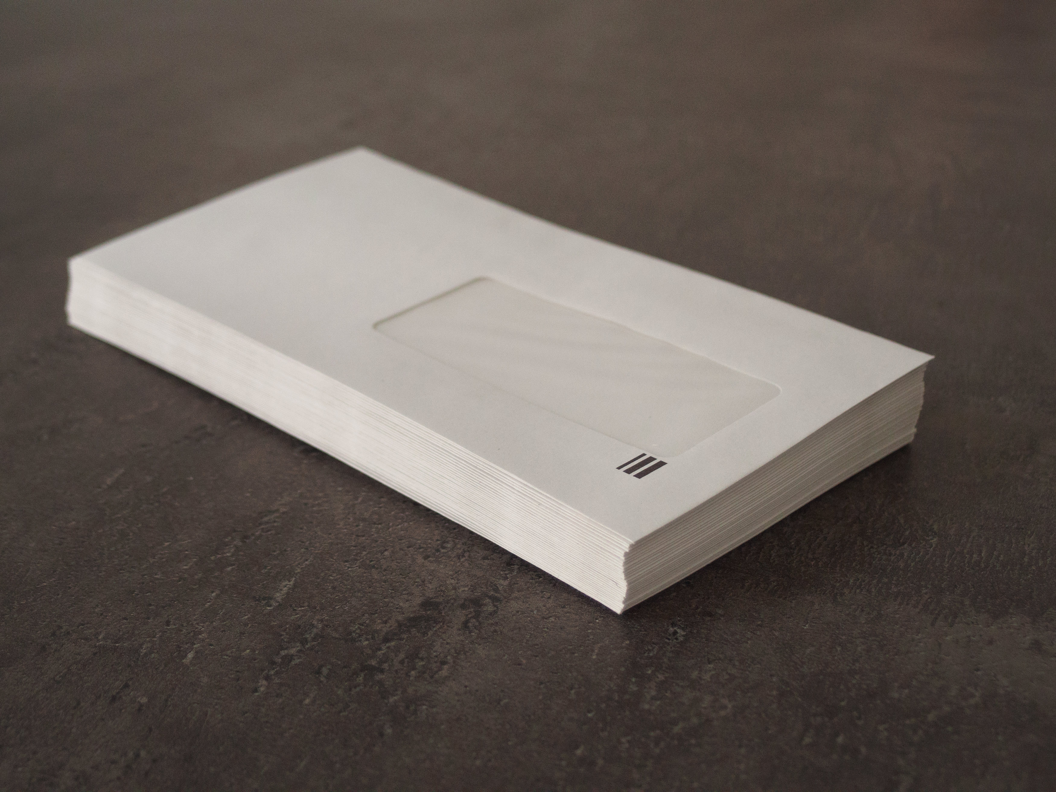 Stack of envelopes. Free stock photo of a stack of blank envelopes/letters on dark grey background.